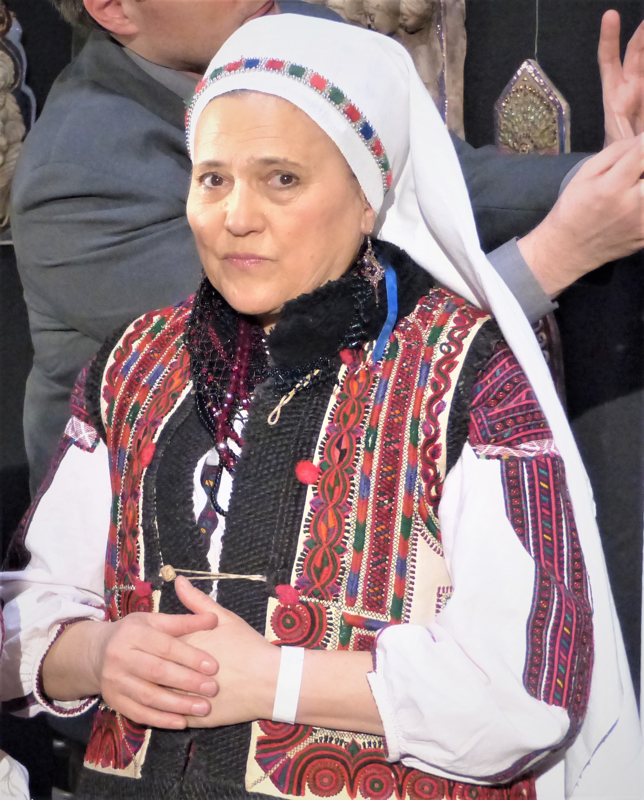 Petrás Mária. Csángó Bál, 2018. Petrás Mária kerámia kiállítása. Millenáris, "B" épület, galéria.